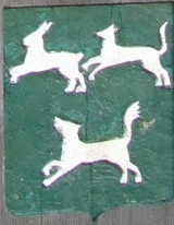 Wapen Arms of De Witt Family of Dordrecht from Statue of De Witt Brothers